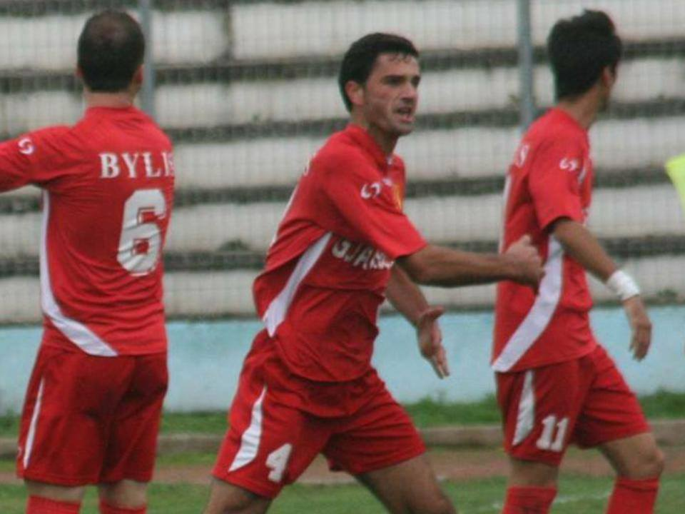 Bruno Kepi scores the winning goal.